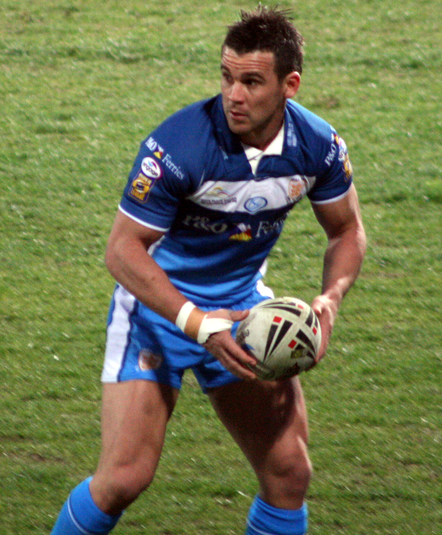 Shaun Berrigan playing rugby league.